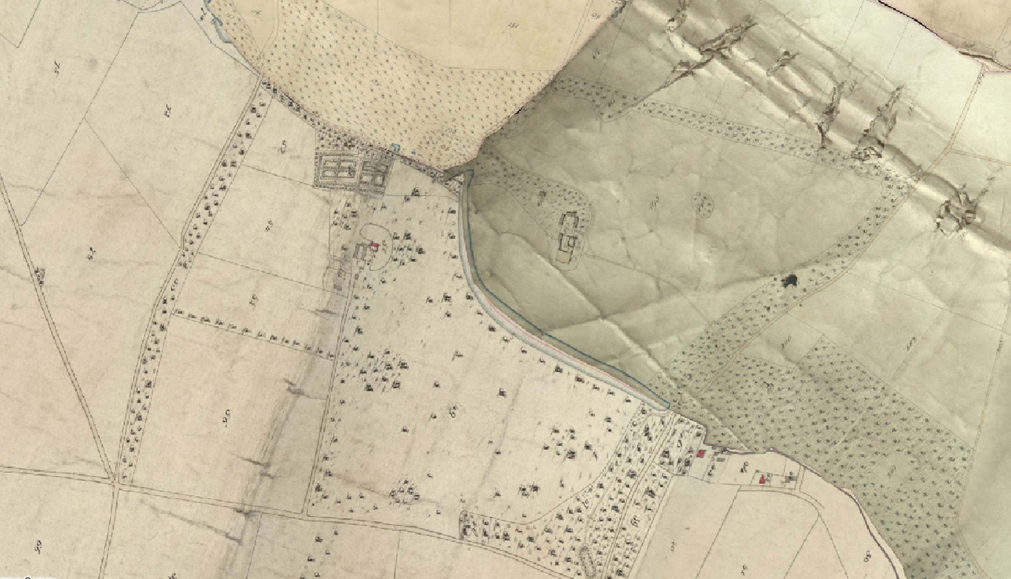 Tithe Map of Hoveton Hall, 1840